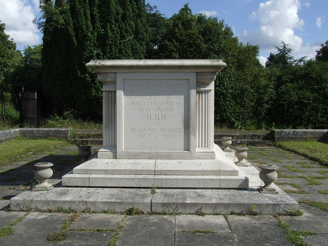 R101 Memorial, Cardington, Bedfordshire, England A memorial to the 48 people who died when the R101 airship crashed in France on October 5th 1930. The memorial lists all 48 who died and are buried in the small cemetery here in Cardington.